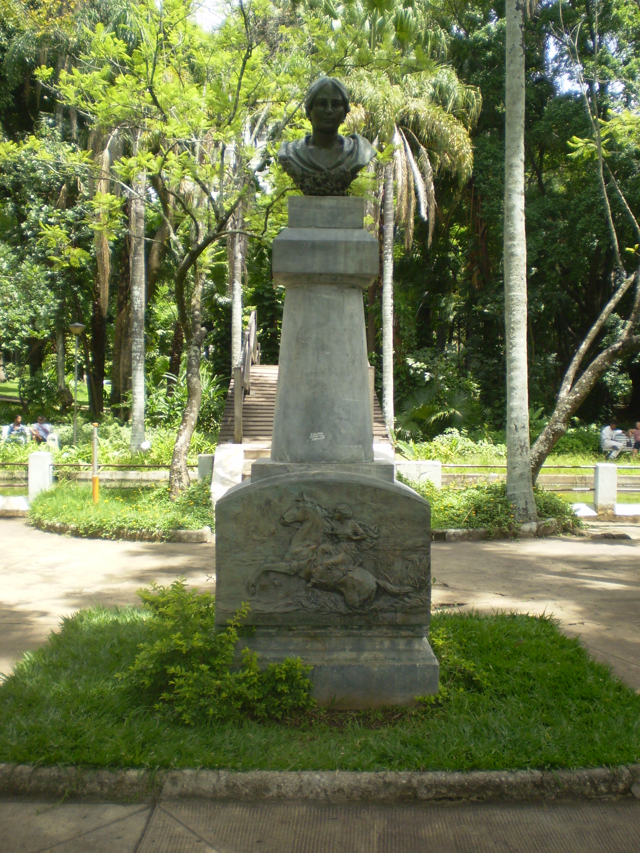 A statue of Anita Garibaldi in Belo Horizonte, Brazil